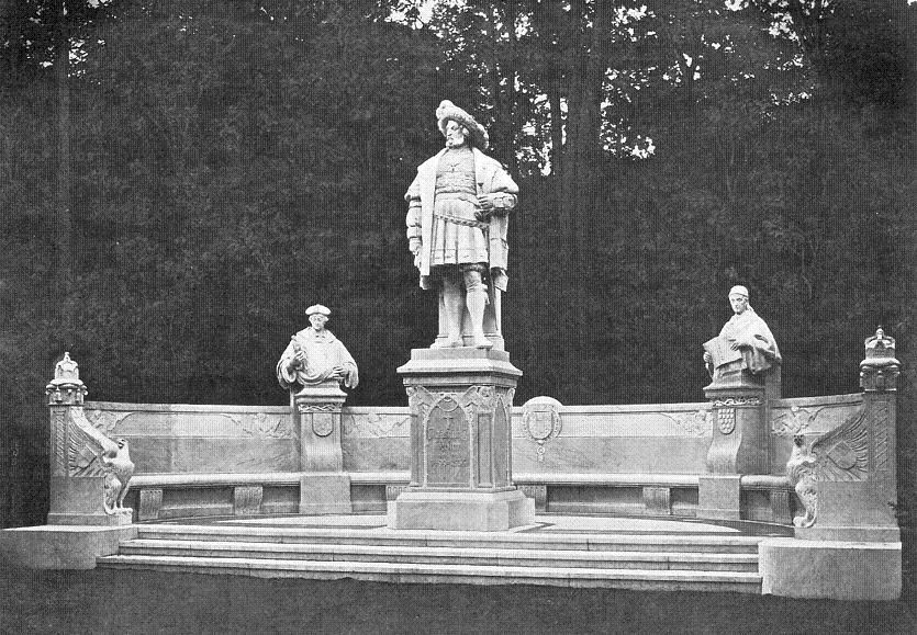 Monument group № 19 in the former Siegesallee in Berlin. The central monument commemorates Joachim I Nestor, Elector of Brandenburg. The bust on the left commemorates his brother, Archbishop Albert of Mainz; the bust on the right Bishop Dietrich von Bülow, the first chancellor of the University of Vladrina. Sculptor: Johannes Götz. The sculpture was unveiled on 28 August 1900.